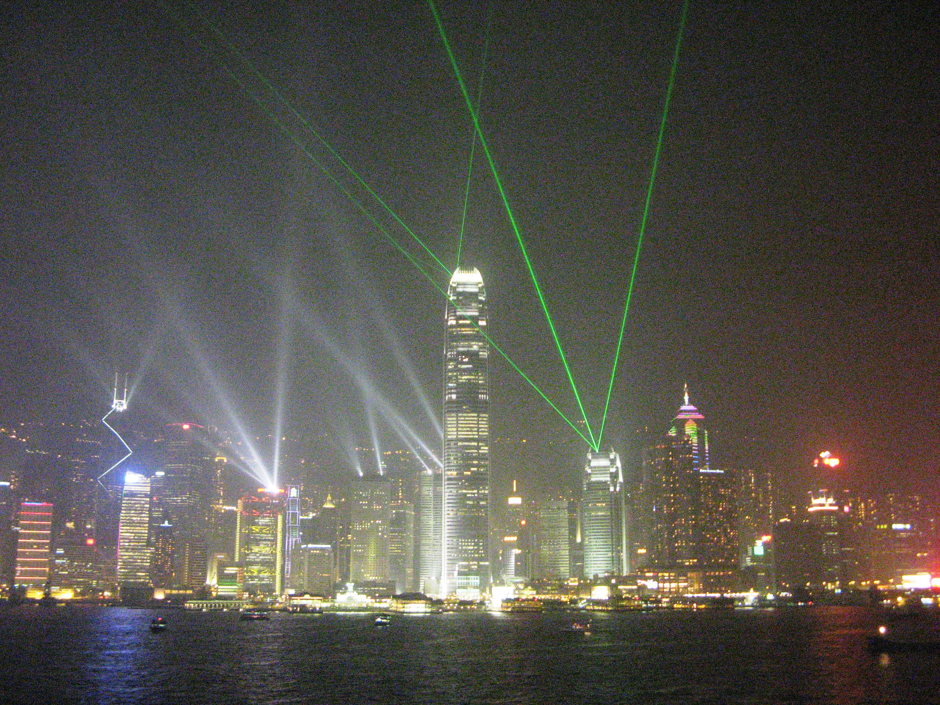 A Symphony of Lights, the Hong Kong Harbour Laser Show